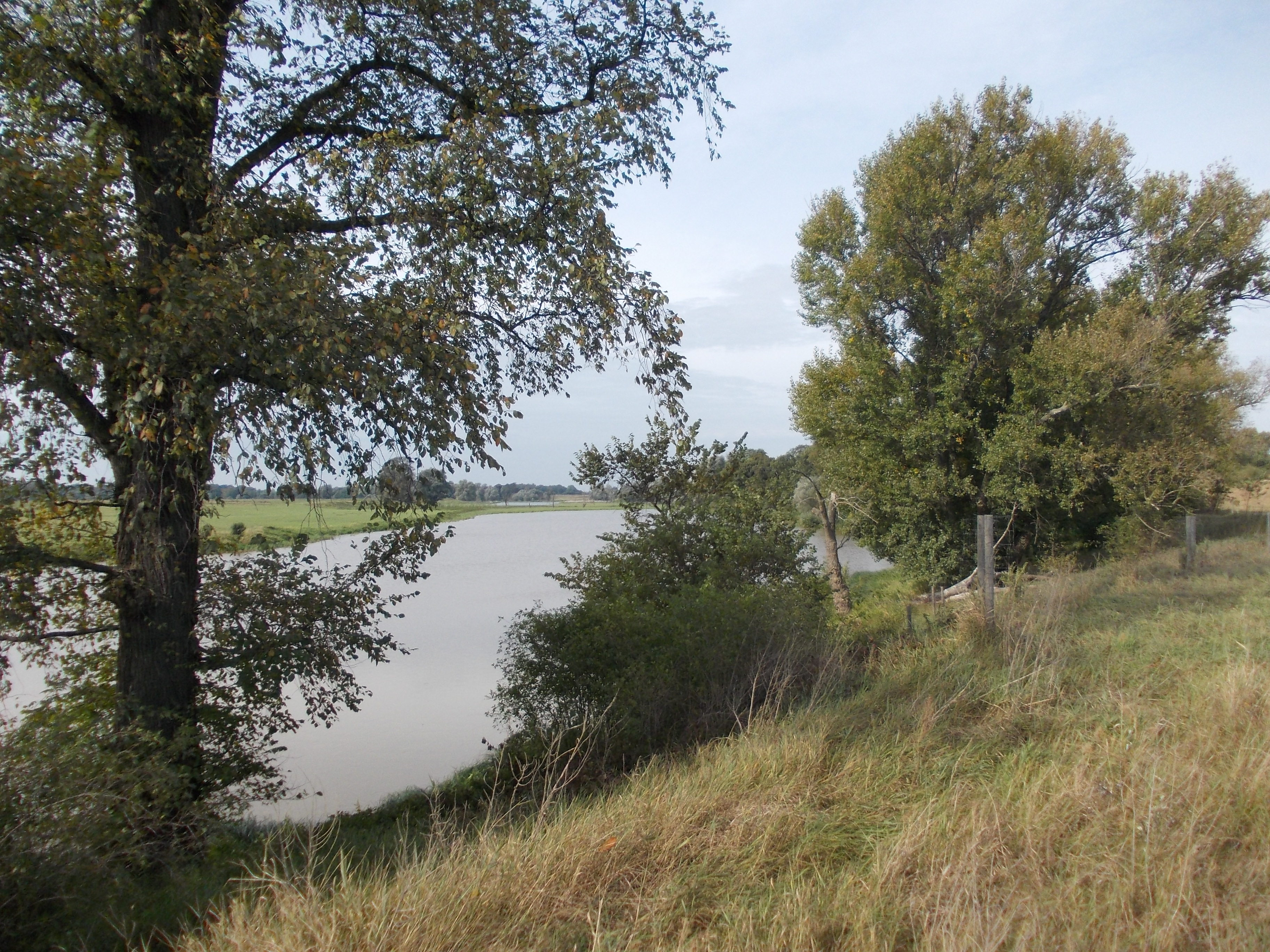 Old Elbe nature reserve near Kathewitz (Arzberg, Nordsachsen district, Saxony)